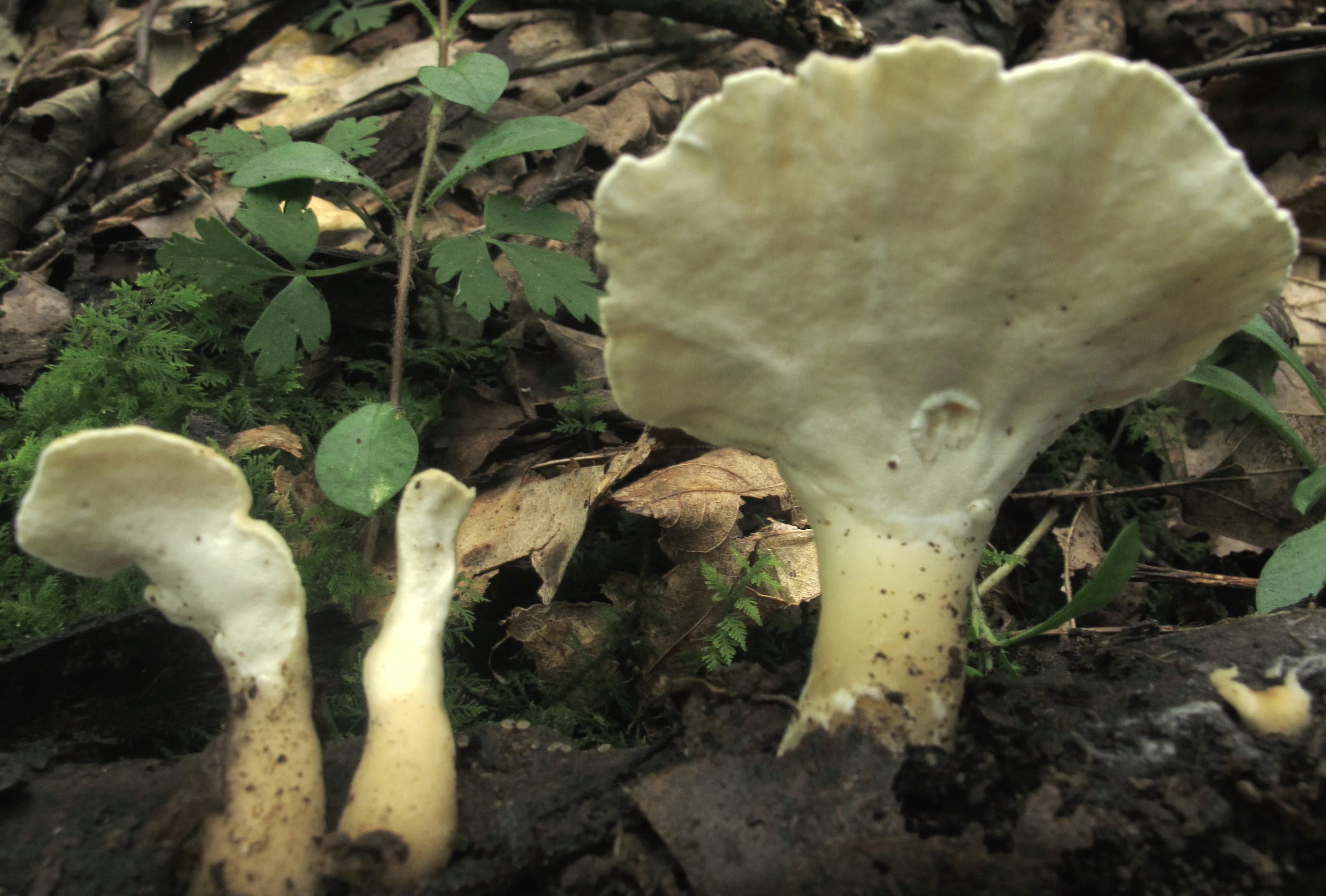 Fruit bodies of the polypore fungus Loweomyces fractipes (Berk. & M.A. Curtis) Jülich; specimens photographed in Kanawha State Forest, Kanawha Co., West Virginia, USA.